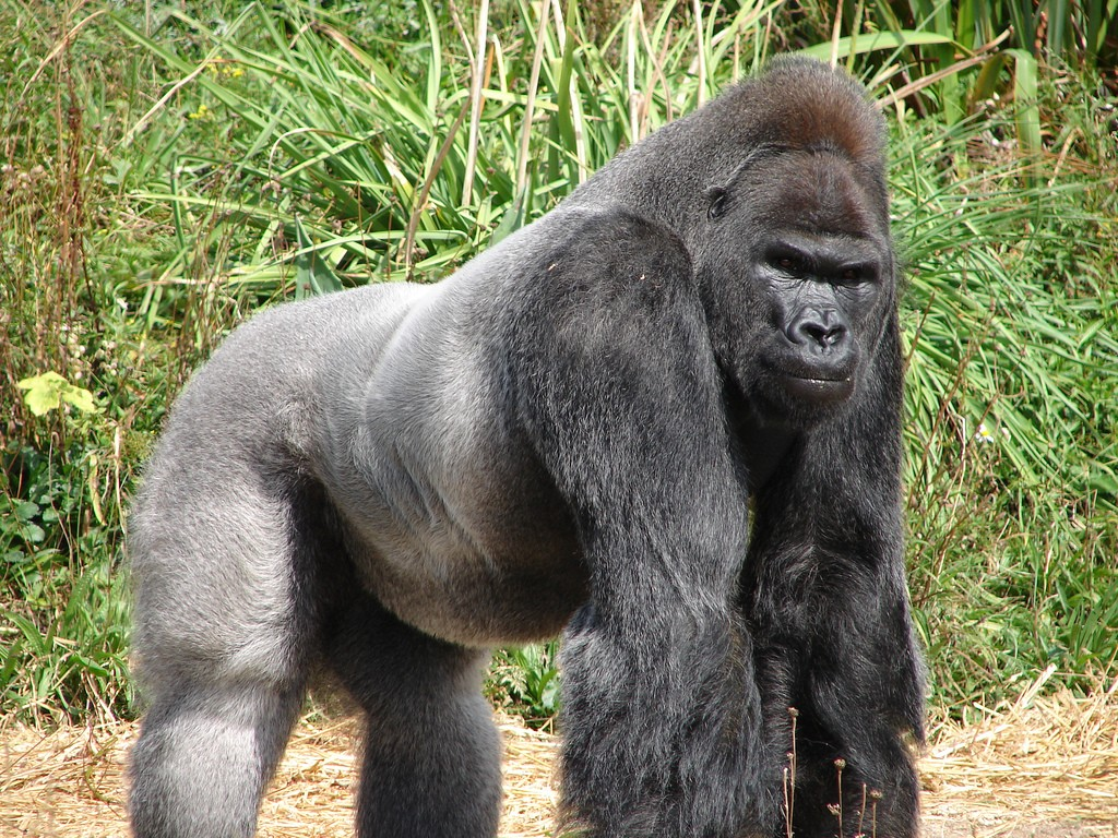 Jock, the Gorilla (2)